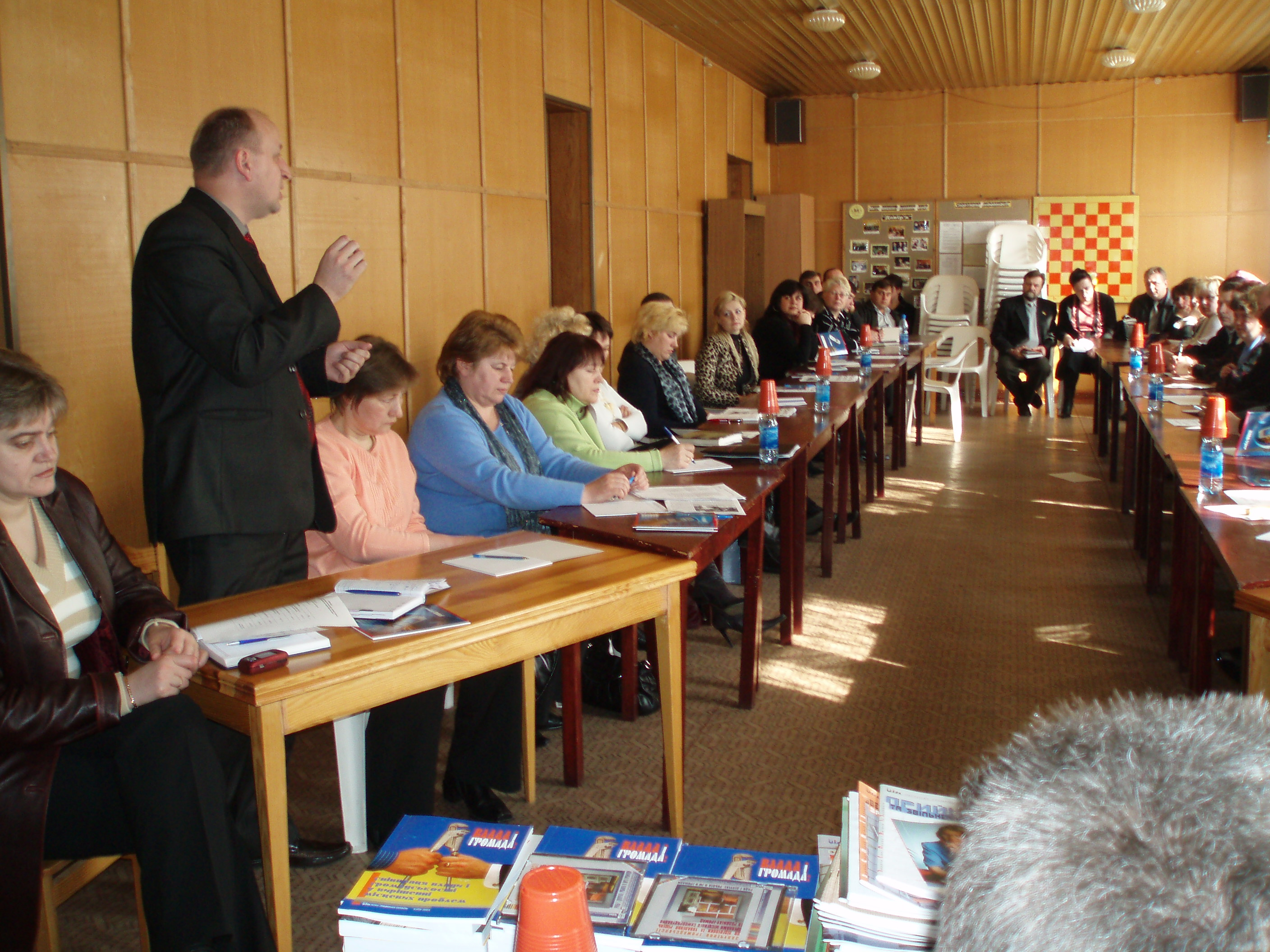 Community self-governance aims at supporting local communities ad local governements to build capacity in mobilizing internal and external ressources; support development of self-organization and selfself-governance; to incease communities' potential for the realization of their own priority programmes for social and economic development and environmental recovery for better local governance. The participatory community-based development approach aims at : - enhancing capacities of local institutions in the Chernobyl region to contribute effectively to long-term recovery and development initiatives in this region. - facilitating community empowerment for self-help and collective action, breaking the pattern of traditional dependance on the state and moving towards self-government and development.